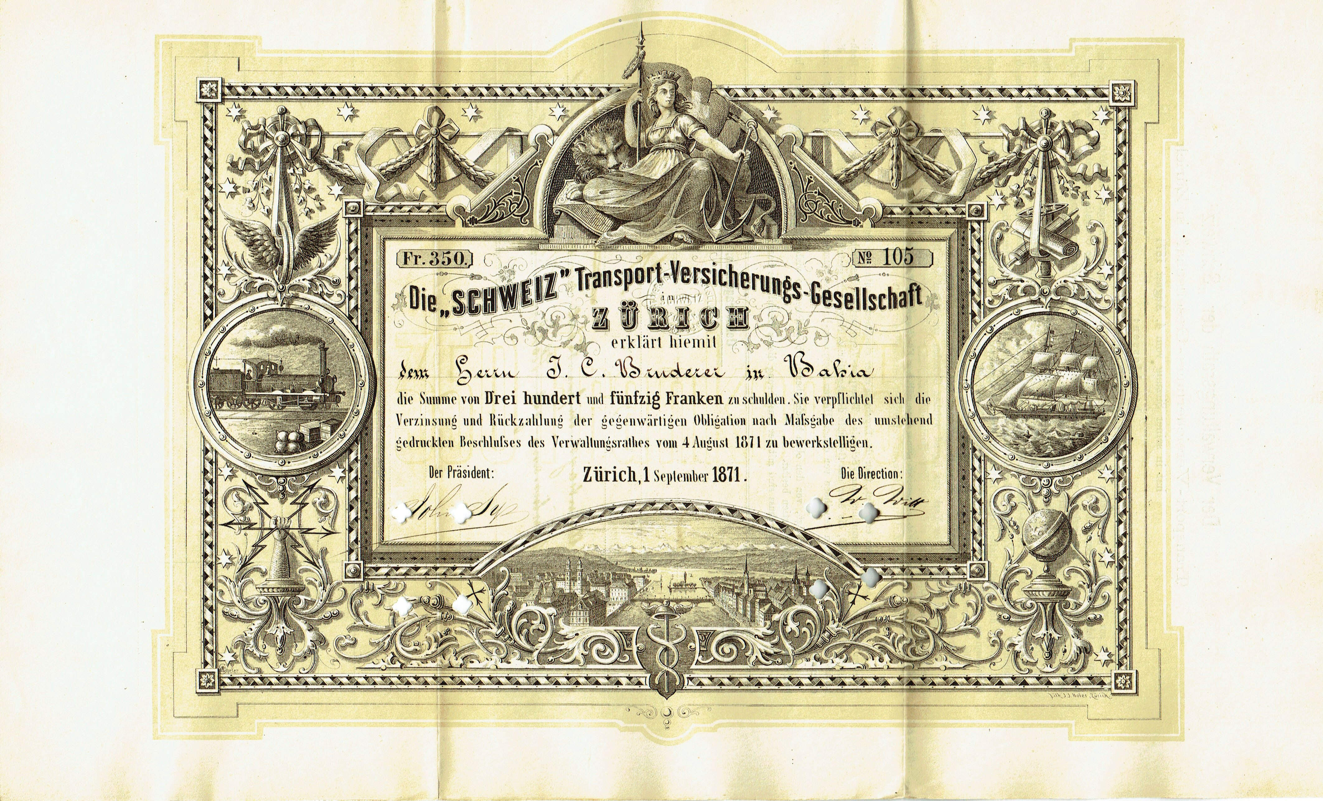 Bond of the "Schweiz" Transport-Versicherungs-Gesellschaft, issued 1st September 1871